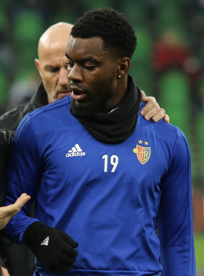 Afimico Pululu warming up for FC Basel before an Europa League game against FC Krasnodar.